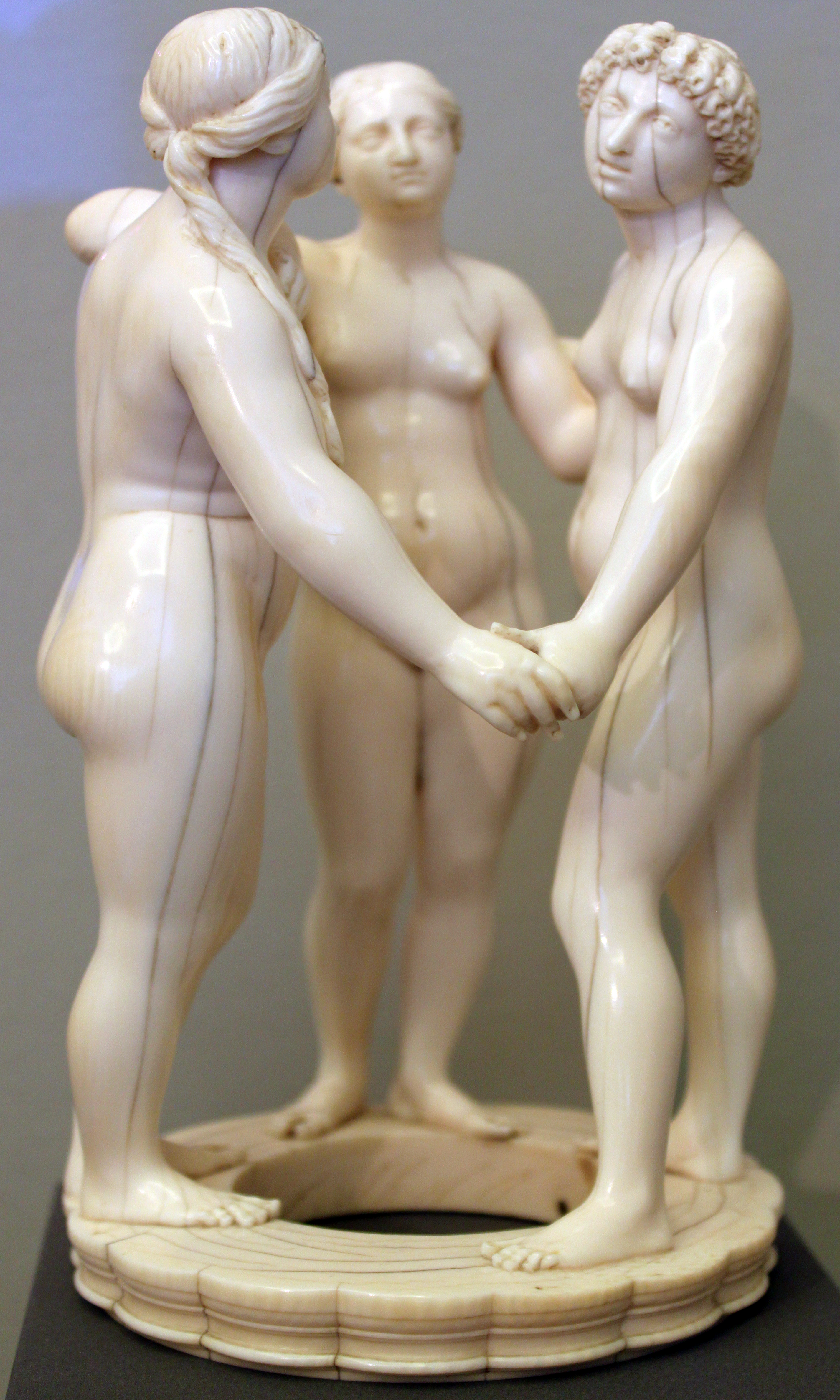 Leonhard Kern (1588–1662) Description German sculptor Date of birth/death22 November 15884 April 1662Location of birth/deathForchtenbergSchwäbisch HallAuthority control VIAF: 32791467 LCCN: nr91008529 GND: 11872200X ULAN: 500010178 ISNI: 0000 0000 6676 3394 WorldCat WP-Person Die drei Grazien, 1650, Bodemuseum Berlin, Inv. 4395